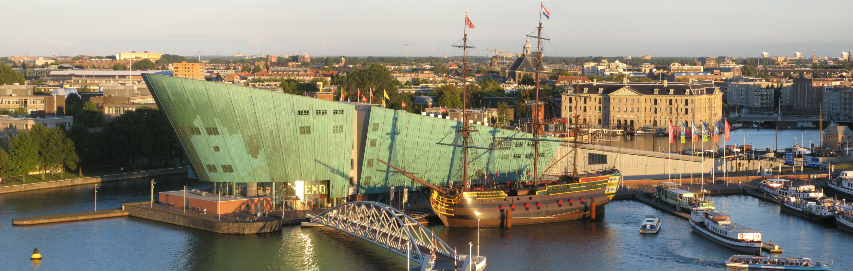 Visible are the Science museum NEMO (green), replica of VOC ship Amsterdam , and Nederlands Scheepvaartmuseum (Netherlands Maritime Museum, the large building to the right). Location: Amsterdam, Holland.